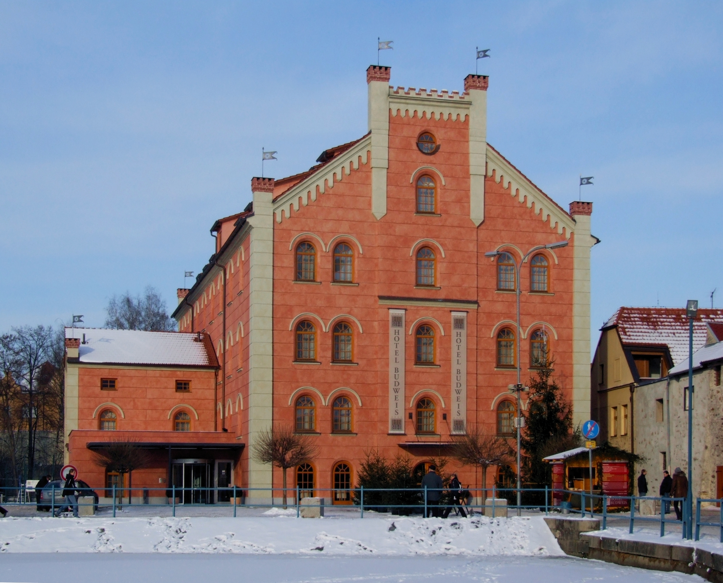 České Budějovice (Budweis) - hotel Budweis